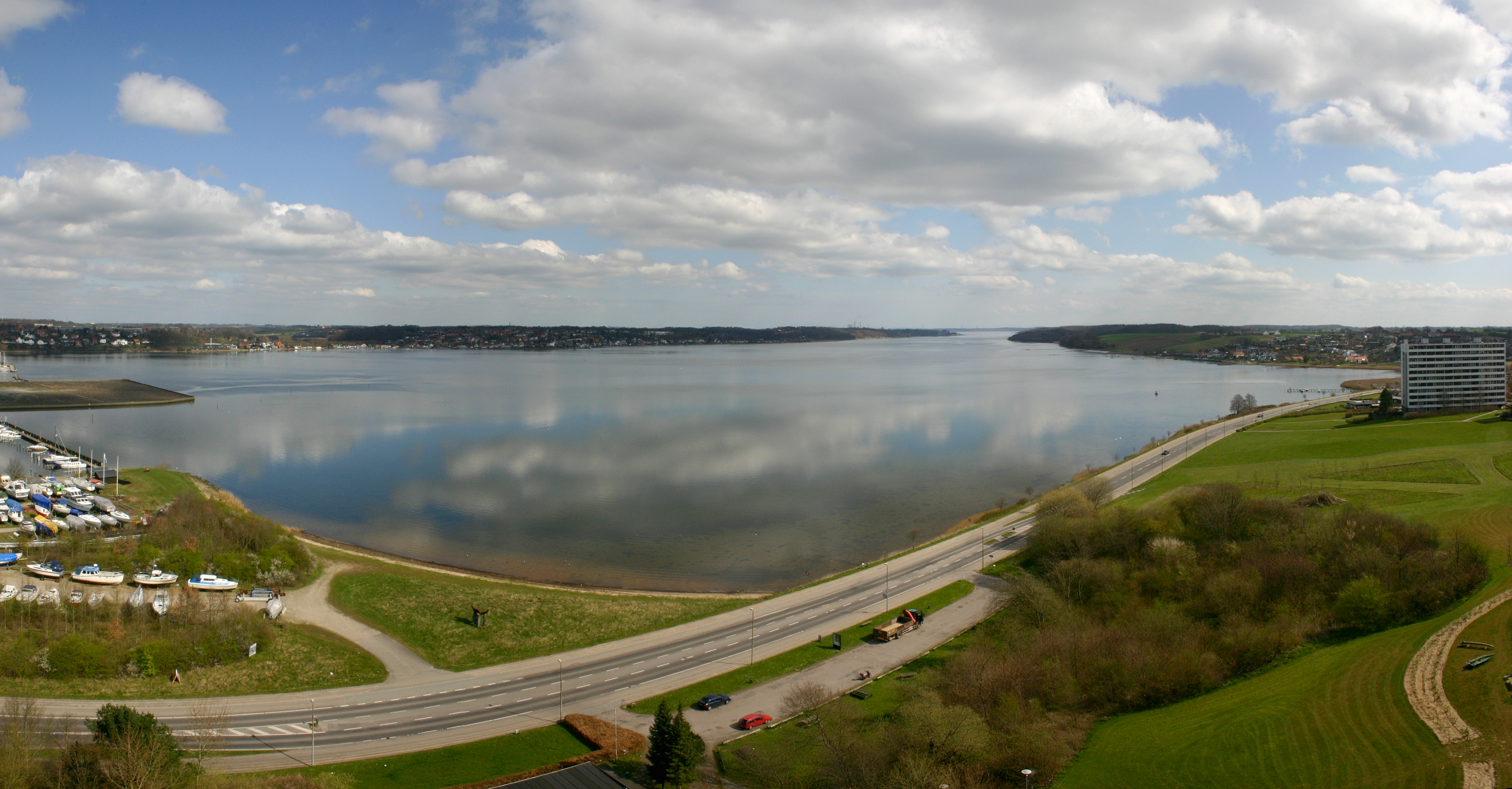 Kolding fjord seen from Højhusene(tall buildings), you can see one in the right of the picture.Seen from west.The big road is Skamlingvejen.